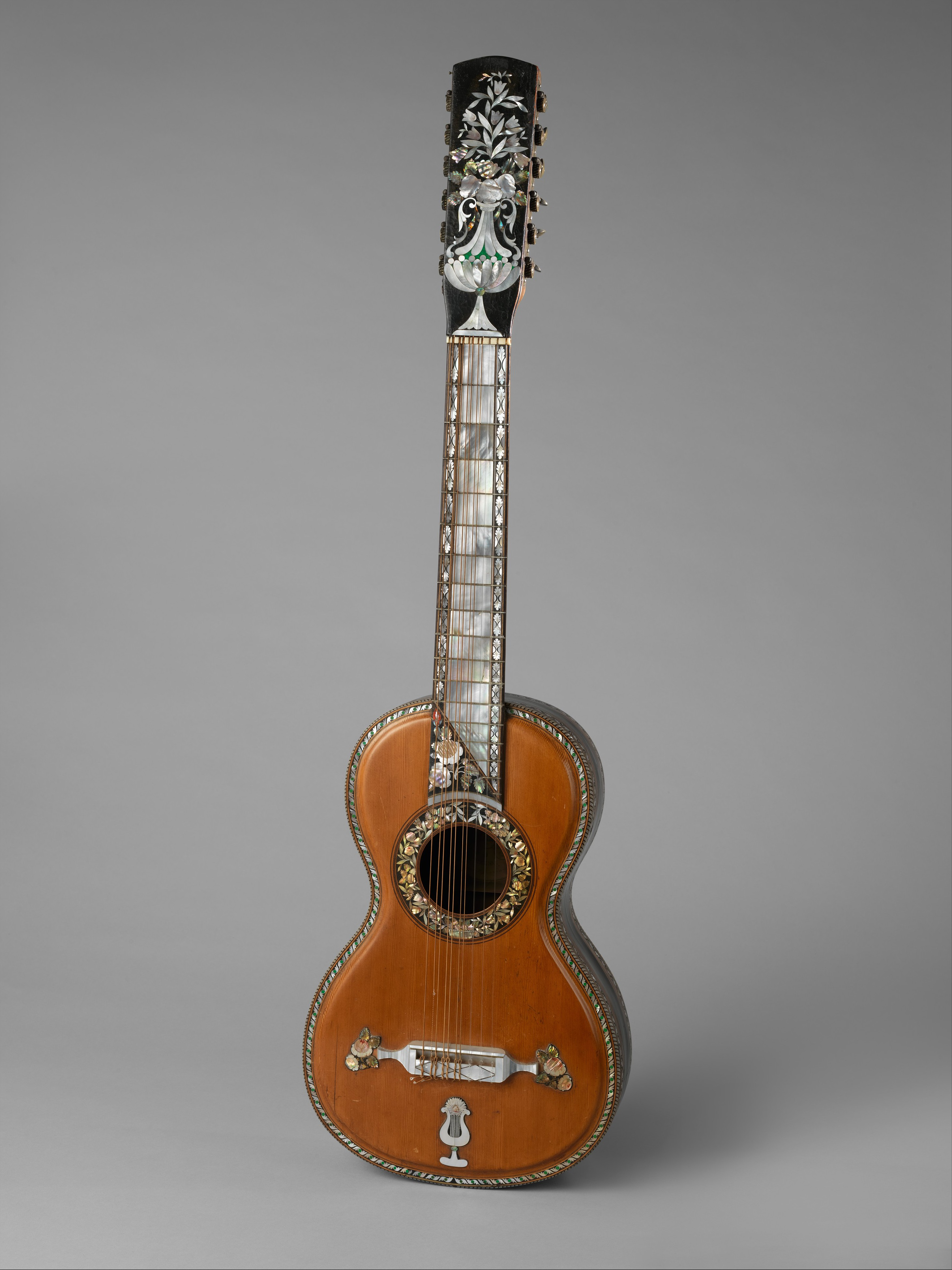 Mexican; Guitarra septima (seven string guitar); Chordophone-Lute-plucked-fretted